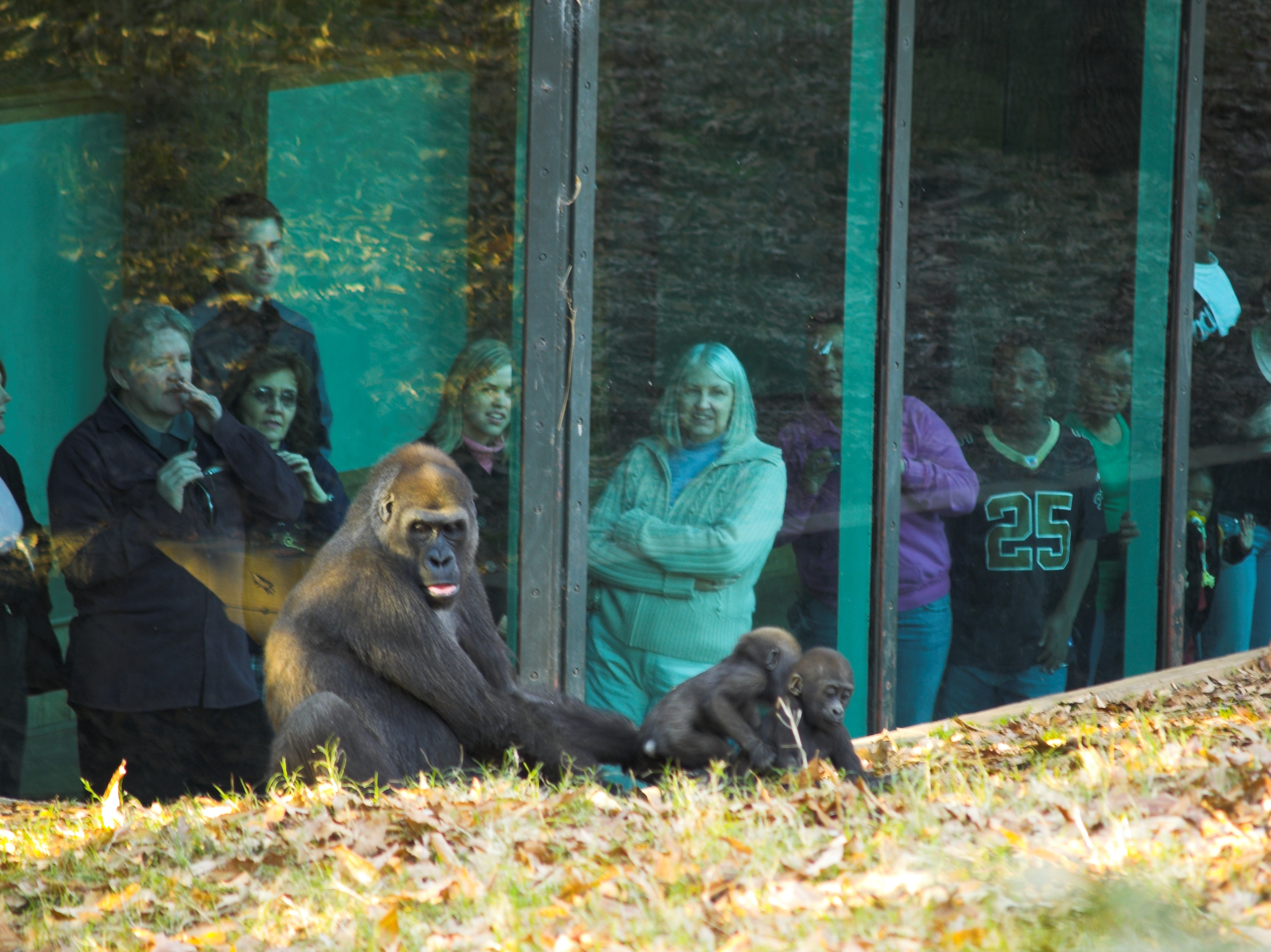 Kuchi, Western lowland gorilla, with twins Kazi and Kali at Zoo Atlanta.